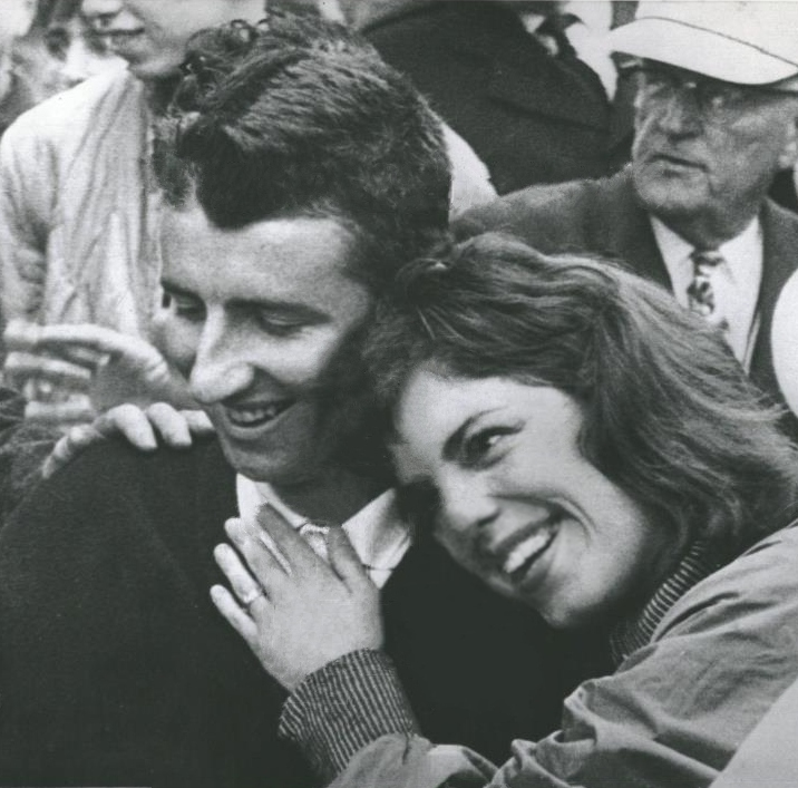 1965 Press Photo George William Archer with wife